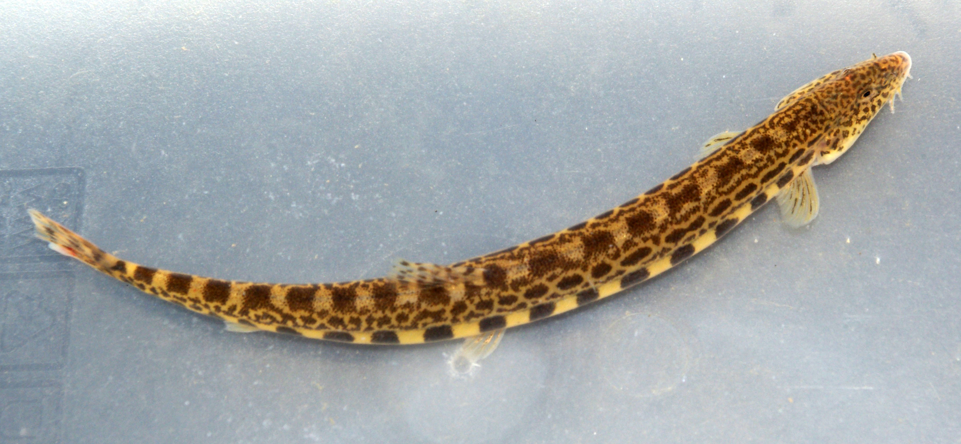 Cobitis calderoni. River Torío (Douro basin), near León, León (Spain)